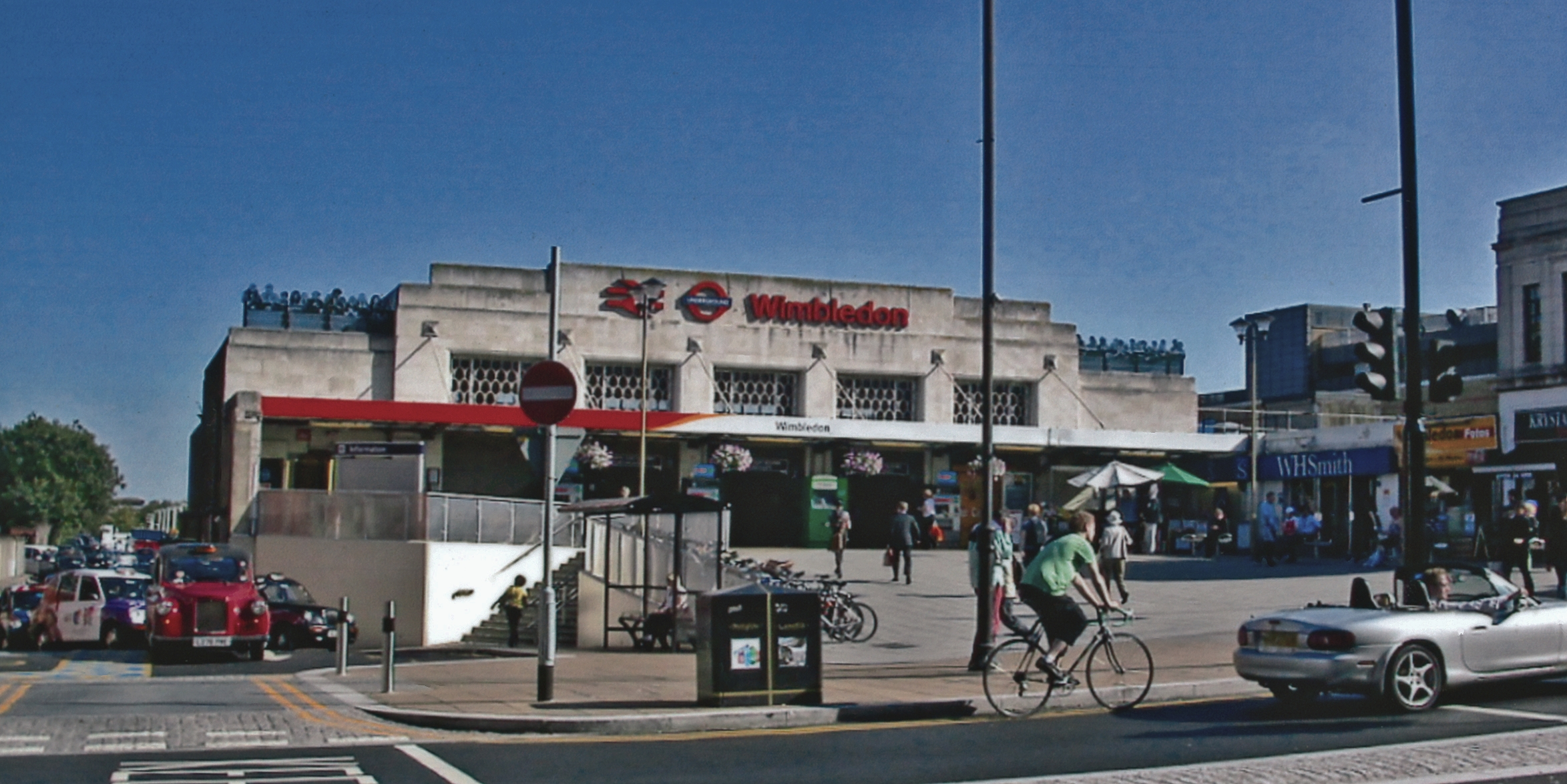 Wimbledon Station, entrance 2011. View NE from Wimbledon Bridge, after closure to cars of the cramped approach: ex-LSWR Waterloo - Surbiton - Woking and the West main line, also ex-LSW&LBSCR (now Thameslink) line from Blackfriars via Tulse Hill, Streatham and Tooting. The station remains as rebuilt in 1929 by the SR incorporating the London Underground District Line terminus from Earl's Court via Putney Bridge. Off the main line to the SW, the line to Sutton opened in 1930 goes southward, together with the former ex-LB&SCR branch to West Croydon, which was converted in 5/00 to a branch of the Croydon Tramlink.